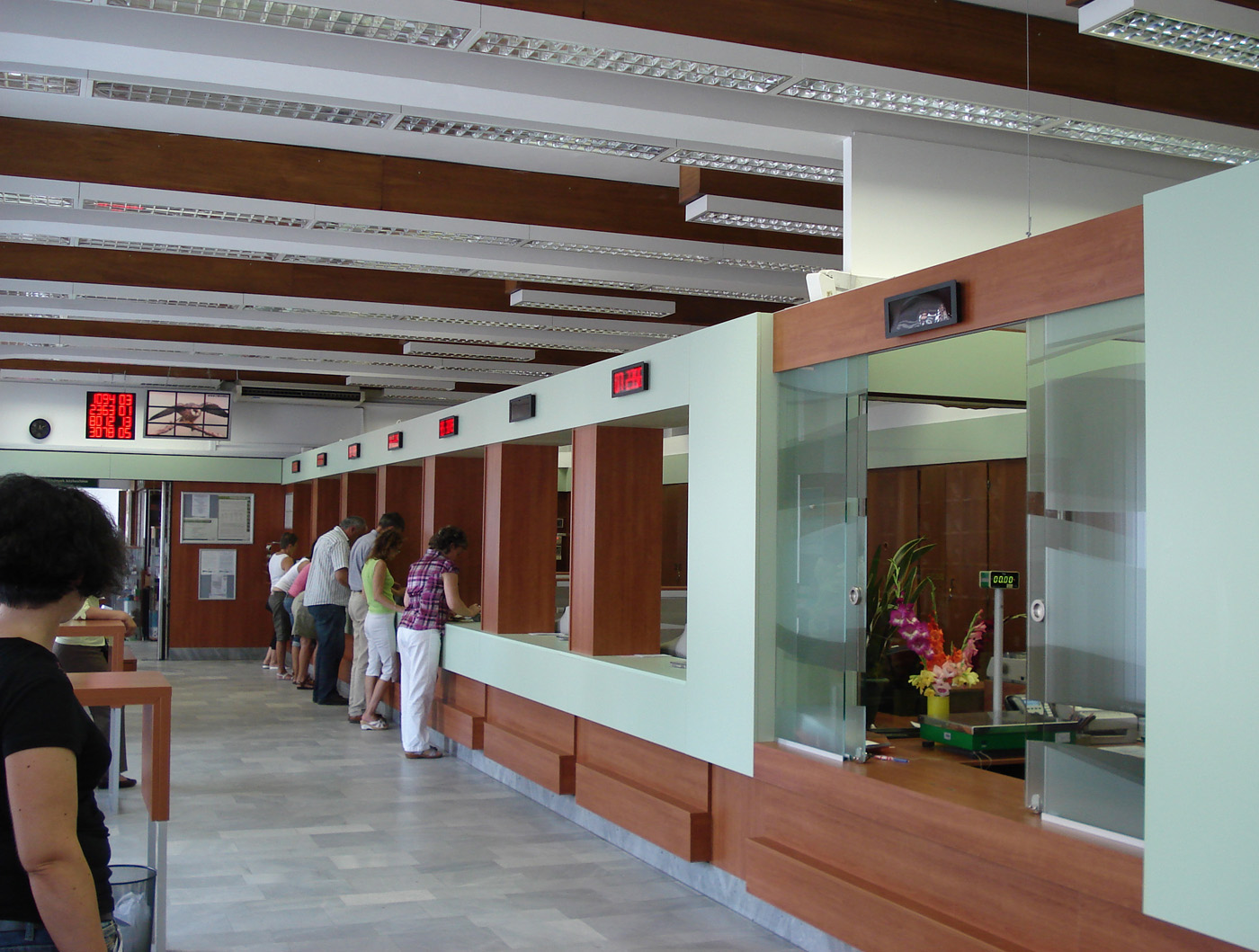 Inner space in the General Post Office (Post Palace), Miskolc, Hungary